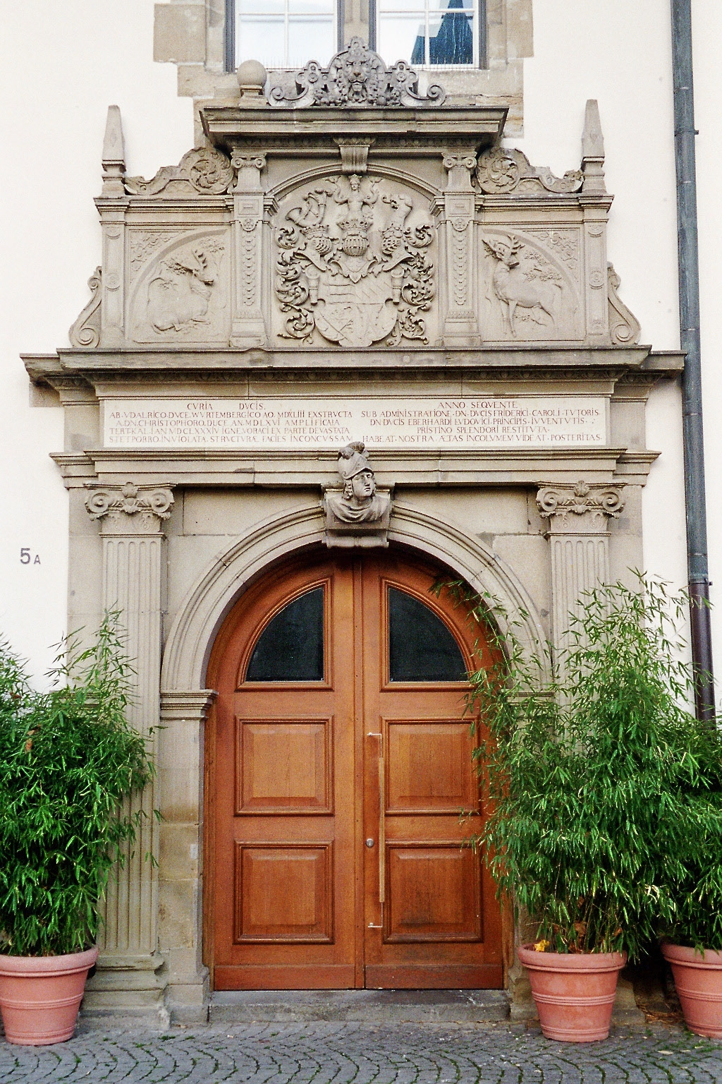 Ducal Court constructed by Ulrich prince of Württemberg anno 1543 amplified by Dominus Christoph prince anno 1566 In the following year under the administration of Sir prince Friedrich Karl protector Sir prince Eberhard Ludwig theh leader of the young did restitute it to its old splendor. The two lines below seem to be one senctence: May the face of the structure continue to stand inviolated - our age might have it unshaken - unmolested our descendancy may see it.